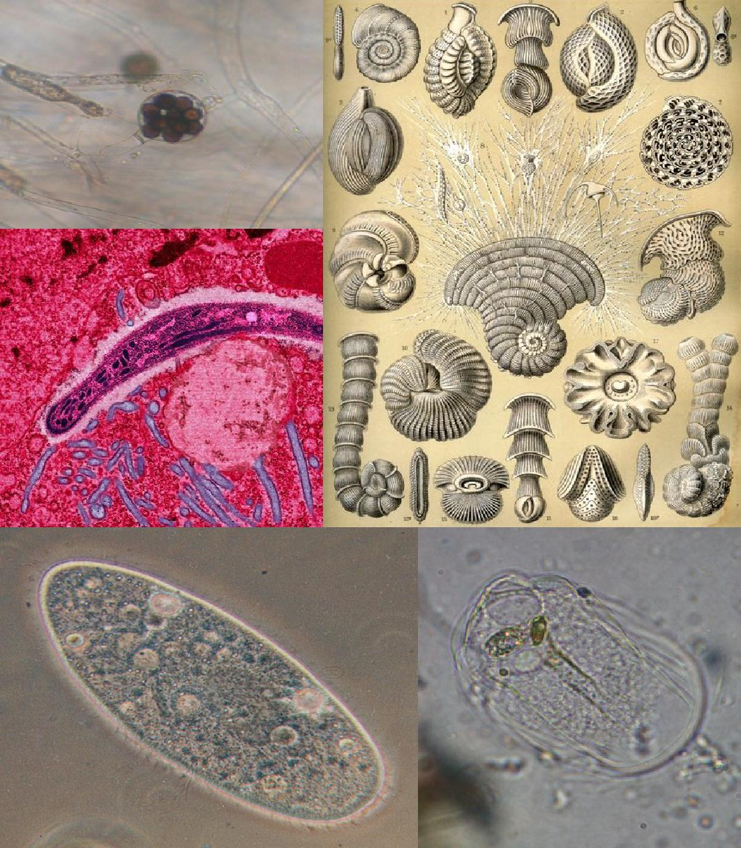 Protist collage. "Commons" and "Wikipedia" image combination.